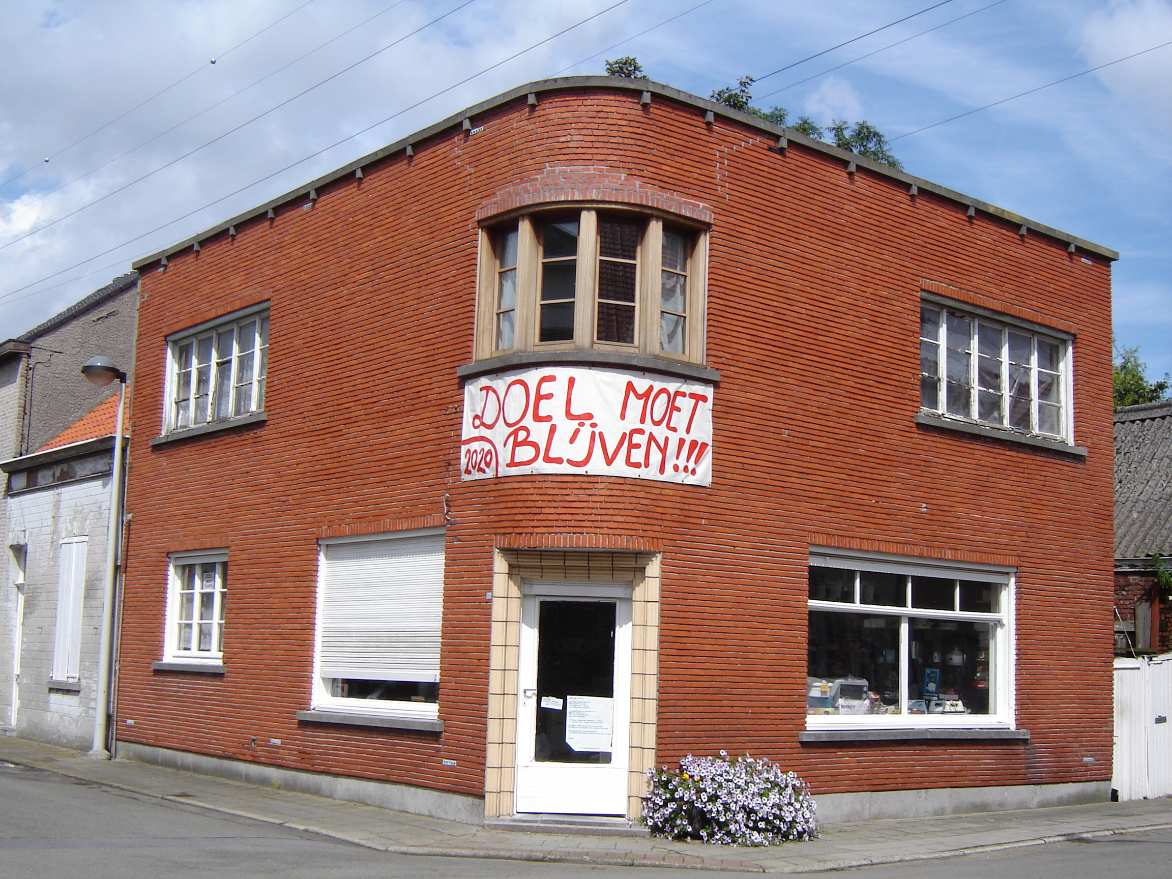 Banner with "Doel moet blijven" ("Doel must stay") on a house (corner Camermanstraat street and Vissersstraat street) in Doel, protesting against the planned demolition of the village. Doel, Beveren, East Flanders, Belgium